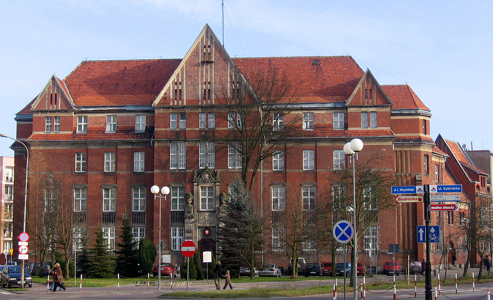 Kołobrzeg County Police Headquarters, Poland.